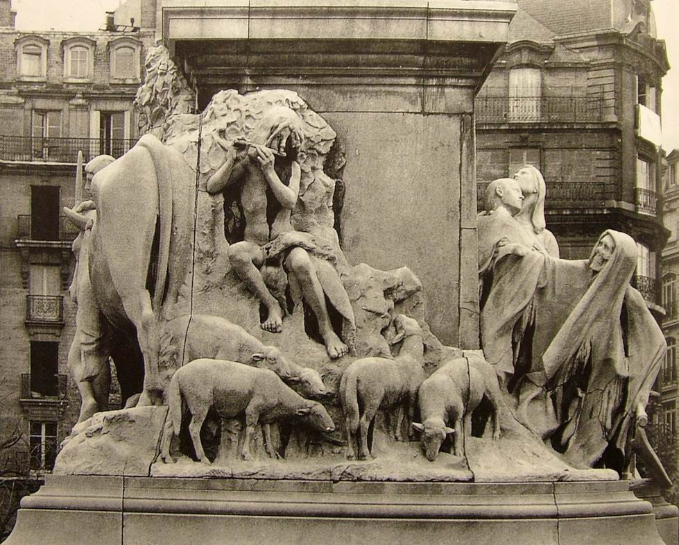 Loius Pastere, monument a Paris